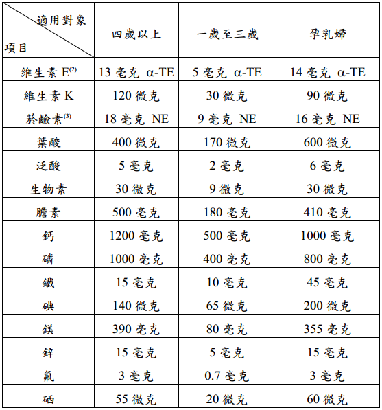 Nutrition facts label format 2-2 of Taiwan